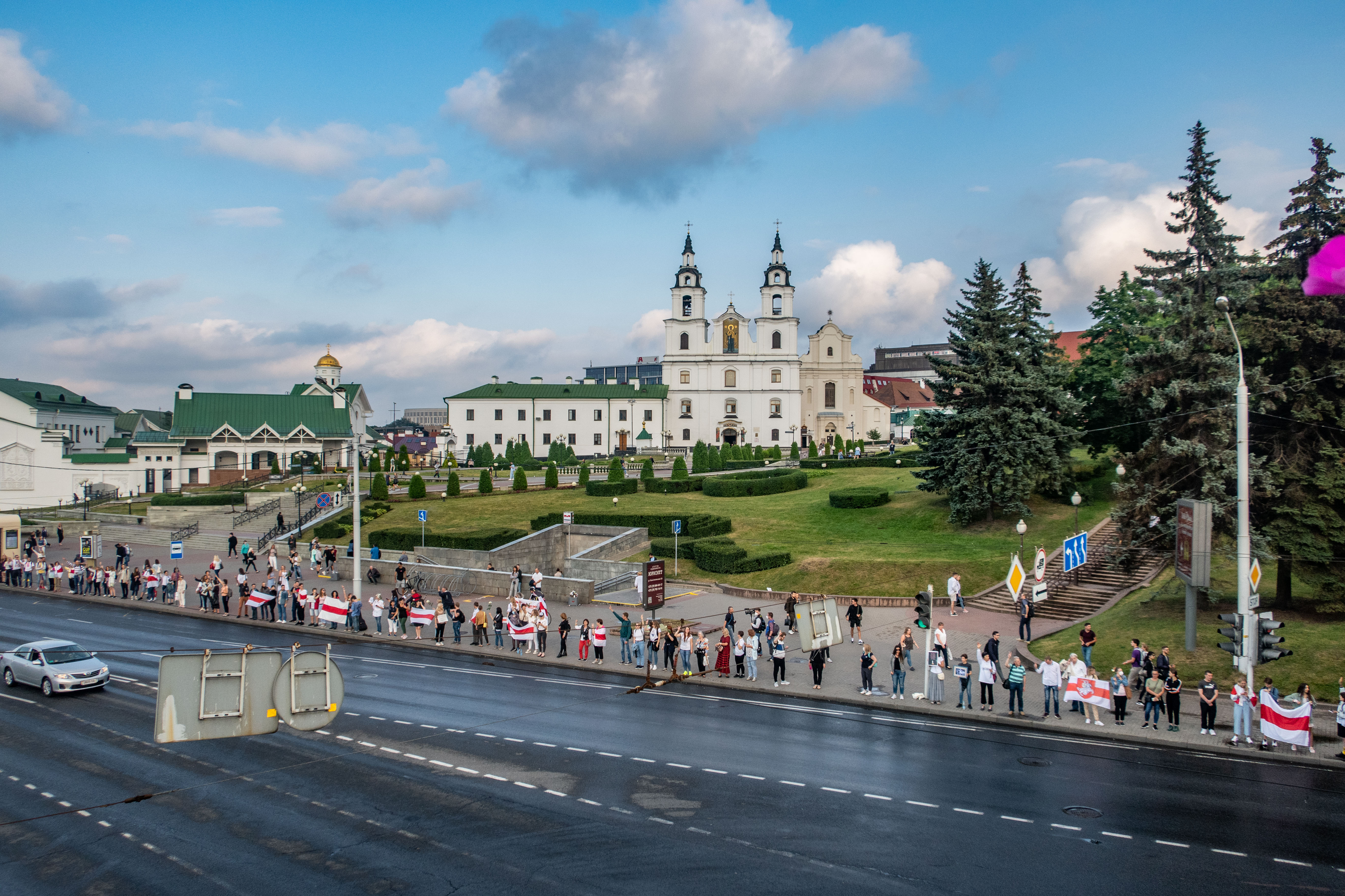 Line against violence ("Never again"), 21 August 2020. Minsk, Belarus